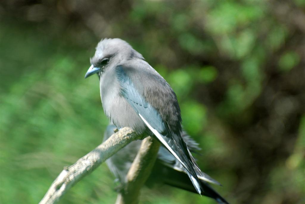 Dusky Woodswallow Artamus cyanopterus.